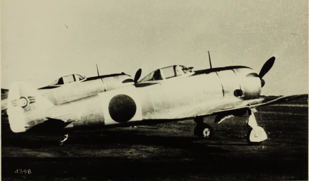 PictionID:6485613 - Catalog:01_00086190 - Title:Nakajima, Ki-44, Shoki 'Devil Queller' Tojo 'John' Army Type 2 Single seat Fighter' - Filename:01_00086190.TIF - Image from the Charles Daniels Photo Collection album "Seversky, Republic and P-47"----PLEASE TAG this image with any information you know about it, so that we can permanently store this data with the original image file in our Digital Asset Management System.----SOURCE INSTITUTION: San Diego Air and Space Museum Archive